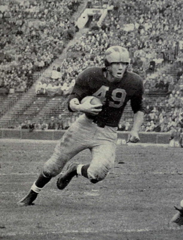 Photograph of Chuck Ortmann running with football This work is in the public domain because it was published in the United States between 1923 and 1963 and although there may or may not have been a copyright notice, the copyright was not renewed. Unless its author has been dead for the required period, it is copyrighted in the countries or areas that do not apply the rule of the shorter term for US works, such as Canada (50 pma), Mainland China (50 pma, not Hong Kong or Macao), Germany (70 pma), Mexico (100 pma), Switzerland (70 pma), and other countries with individual treaties. See Commons:Hirtle chart for further explanation. This work is in the public domain in the United States because it was published in the United States between 1923 and 1977 without a copyright notice. See Commons:Hirtle chart for further explanation. Note that it may still be copyrighted in jurisdictions that do not apply the rule of the shorter term for US works (depending on the date of the author's death), such as Canada (50 p.m.a.), Mainland China (50 p.m.a., not Hong Kong or Macao), Germany (70 p.m.a.), Mexico (100 p.m.a.), Switzerland (70 p.m.a.), and other countries with individual treaties.